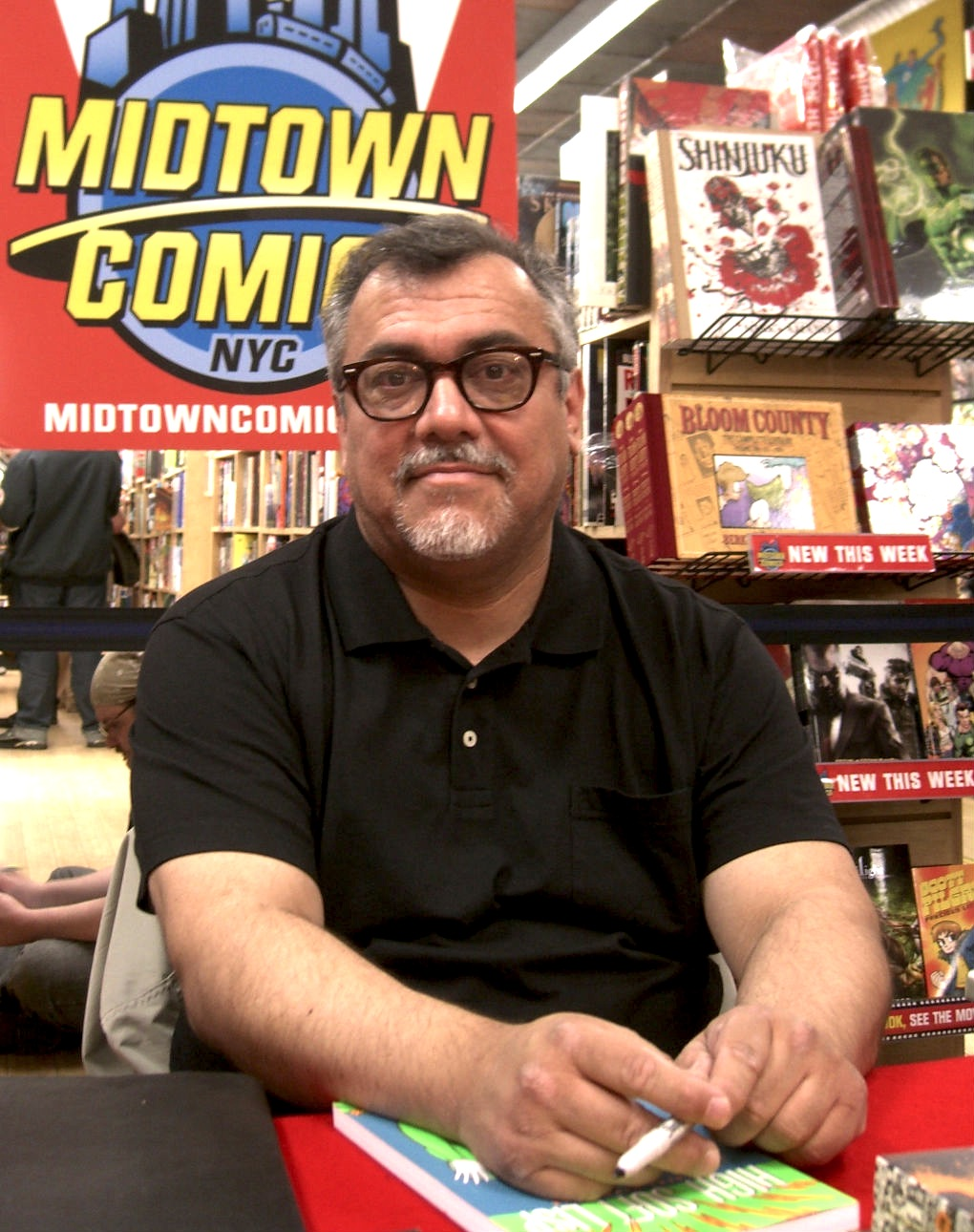 Comic book creator Gilbert Hernandez at a signing at Midtown Comics Times Square in Manhattan, April 24, 2010. Photo by Luigi Novi. You may use this photo only if I am prominently/visibly credited in each instance where it is used. (See licensing information below.) For more information on my images, contact me here.